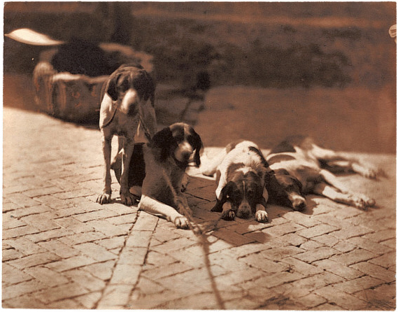 Hunting Dogs. Salt print, 5 5/16 x 6 3/4 in. (13.5 x 17.1 cm).